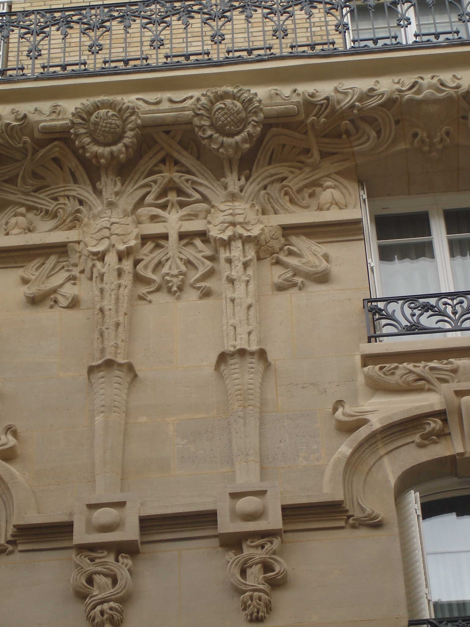 Art Nouveau appartment block in Paris, rue Trousseau in the 11 arrondissement. Detail